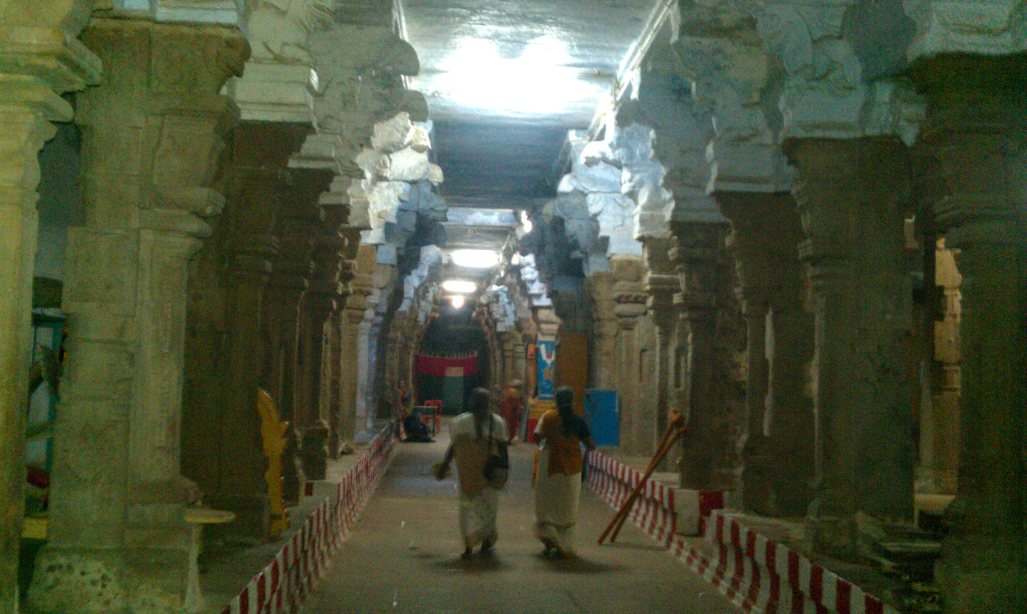 Tirupullani